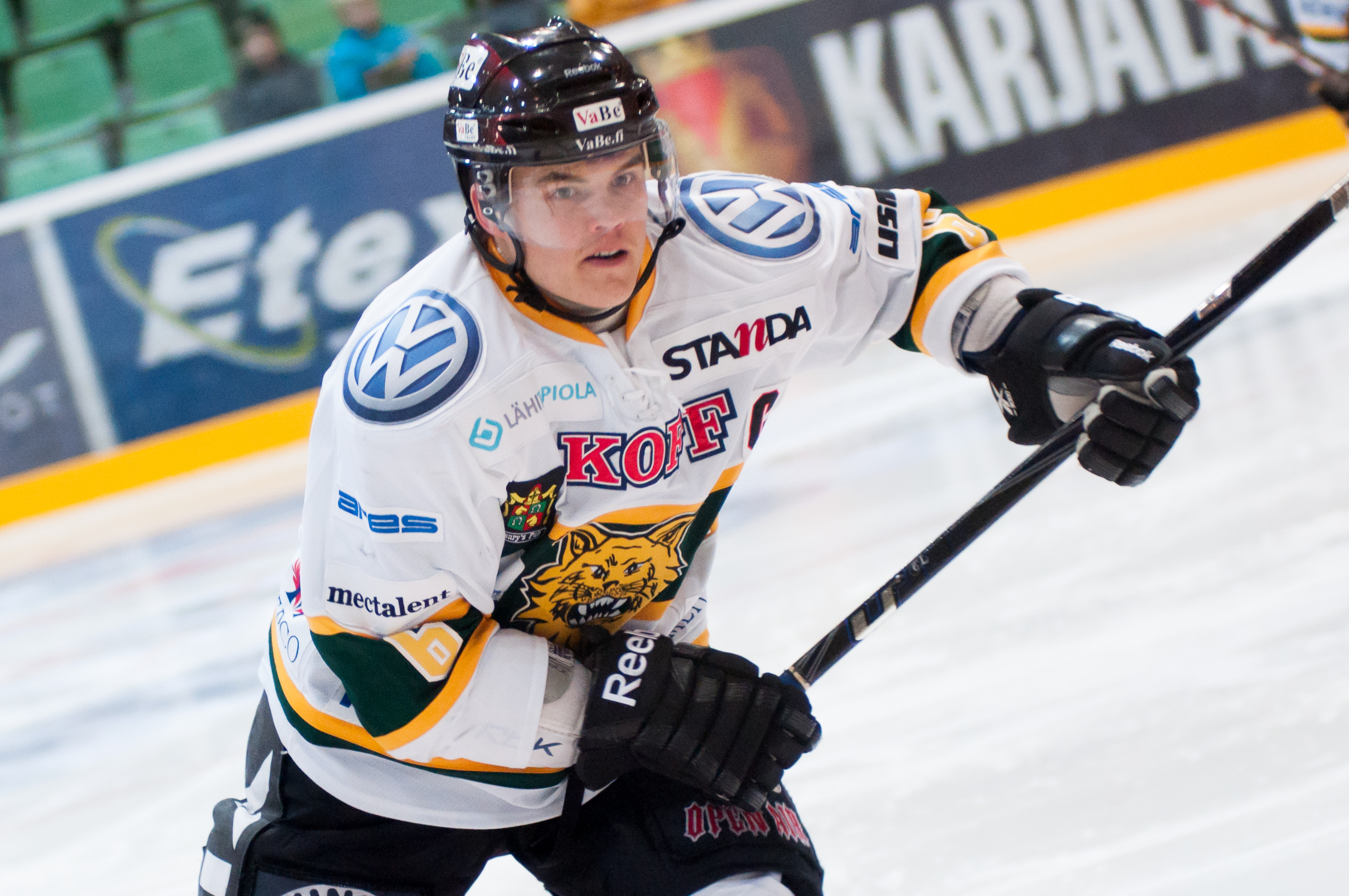 Finnish ice hockey defenseman Ville Koistinen playing for Tampereen Ilves in Lappeenranta, Finland.